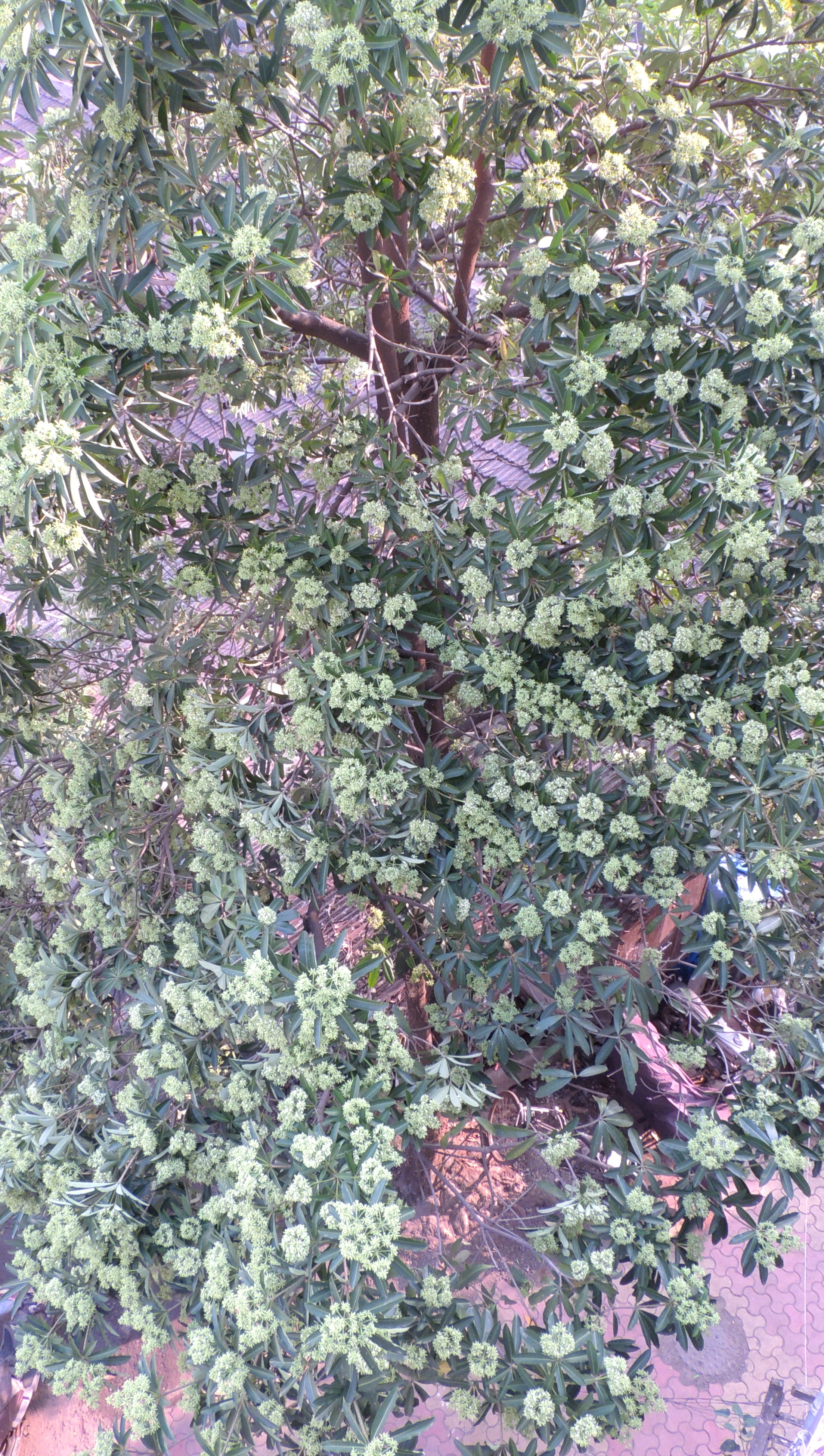 Devil Tree (Alstonia Scholaris) blossom in October 2014 - Mumbai, India